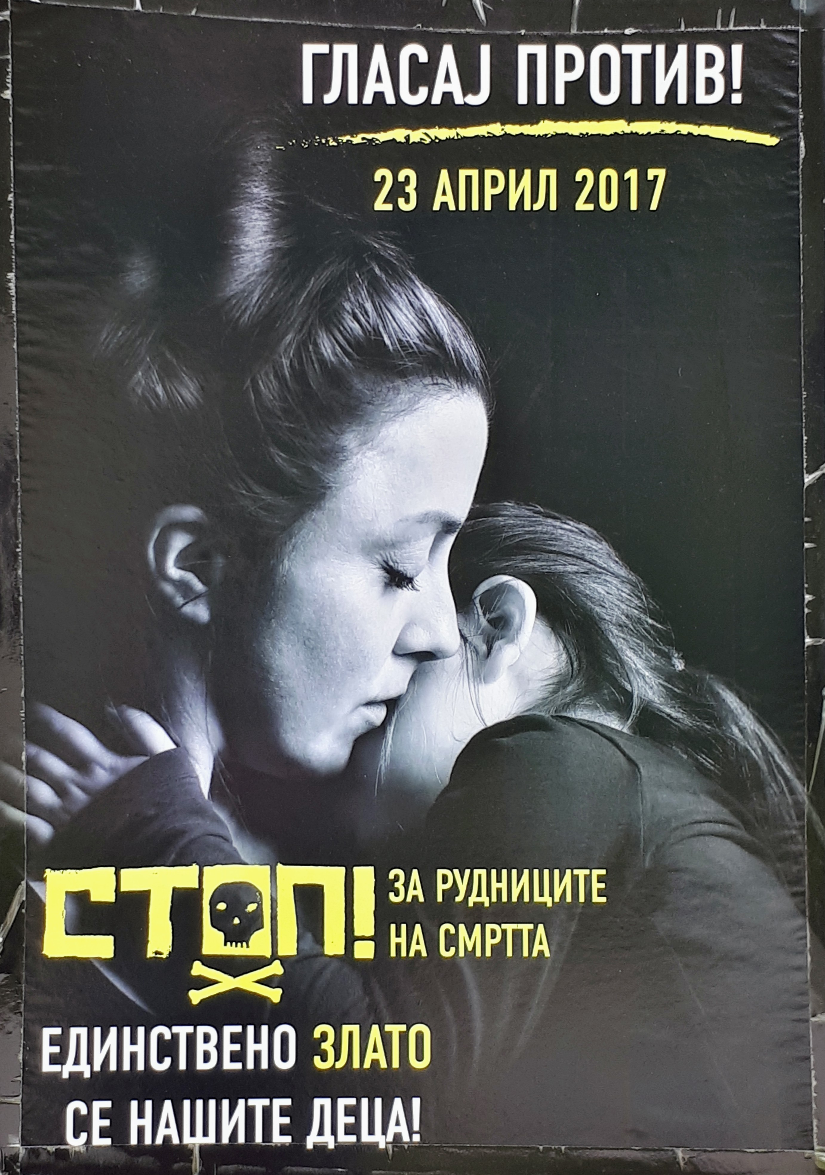 Poster in the campaign again the opening of new mines in Bojmija